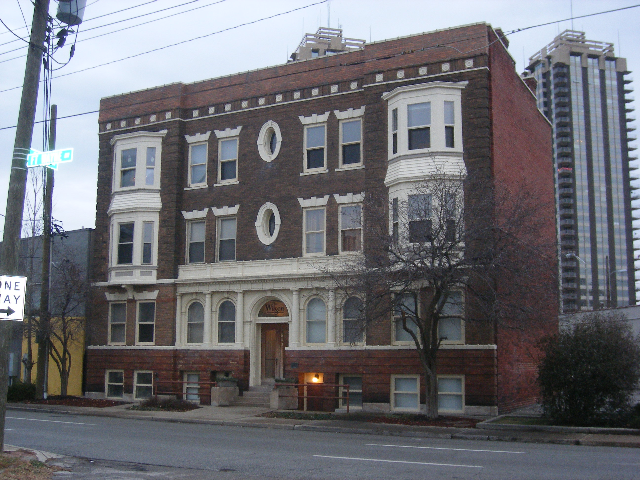 Picture of the front of The Wilson, located at 643 Fort Wayne Avenue in Indianapolis, Indiana, United States. Built in 1905, it is listed on the National Register of Historic Places as one of the "Apartments and Flats of Downtown Indianapolis Thematic Resources".